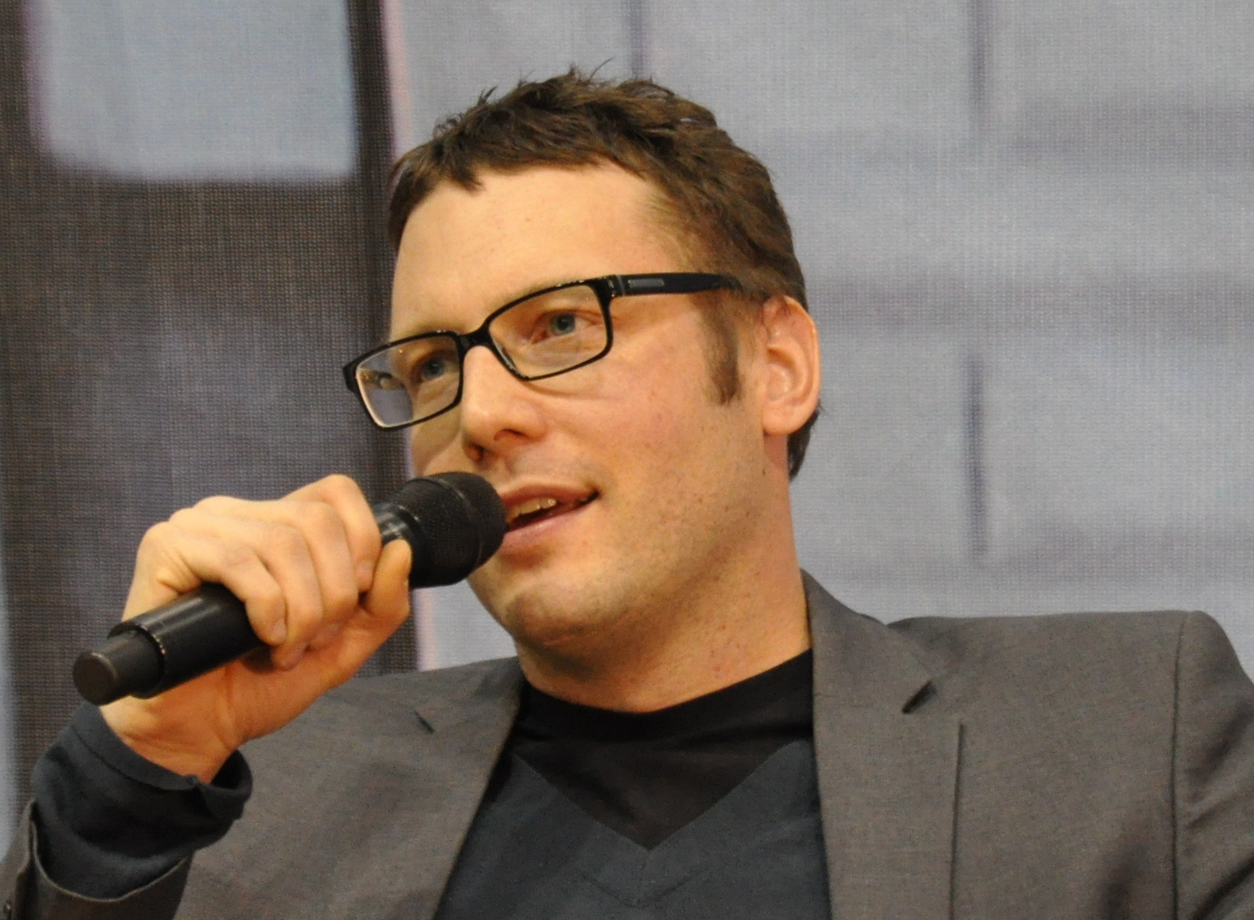 Finnish writer Joel Haahtela at the Tampere Book Fair 2010.